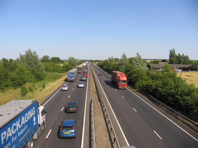 A14 north of Ellington. The A1 Great North Road is about 2 miles away.